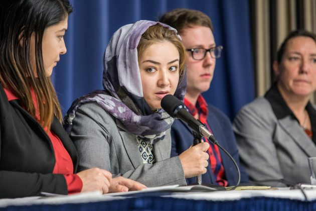 Mihrigul Tursun, a Uighur woman who was detained in China, testifies at the National Press Club in Washington about the mass internment camps in China and the abuses she suffered.